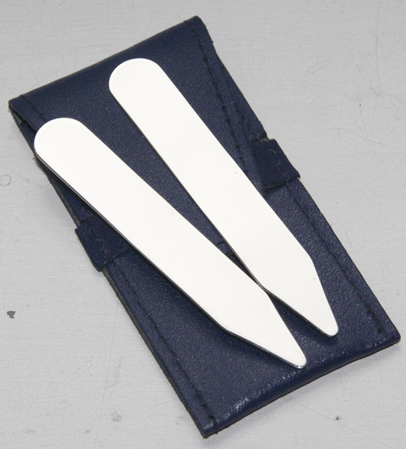 Silver collar stays